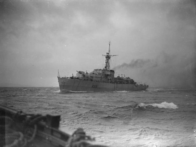 Royal Navy Loch-class frigate HMS Loch Glendhu